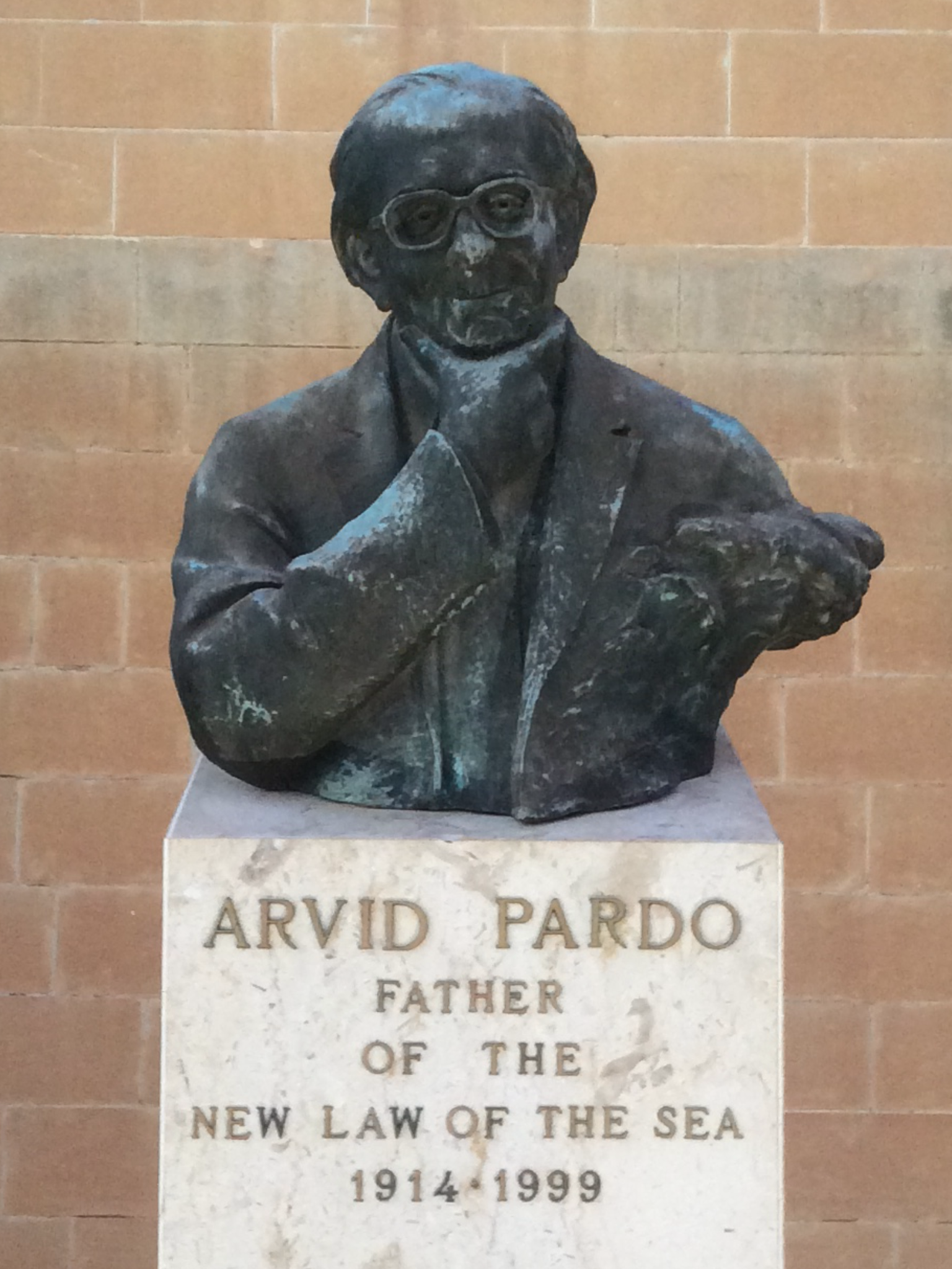 Arvid Pardo monument at the University of Malta